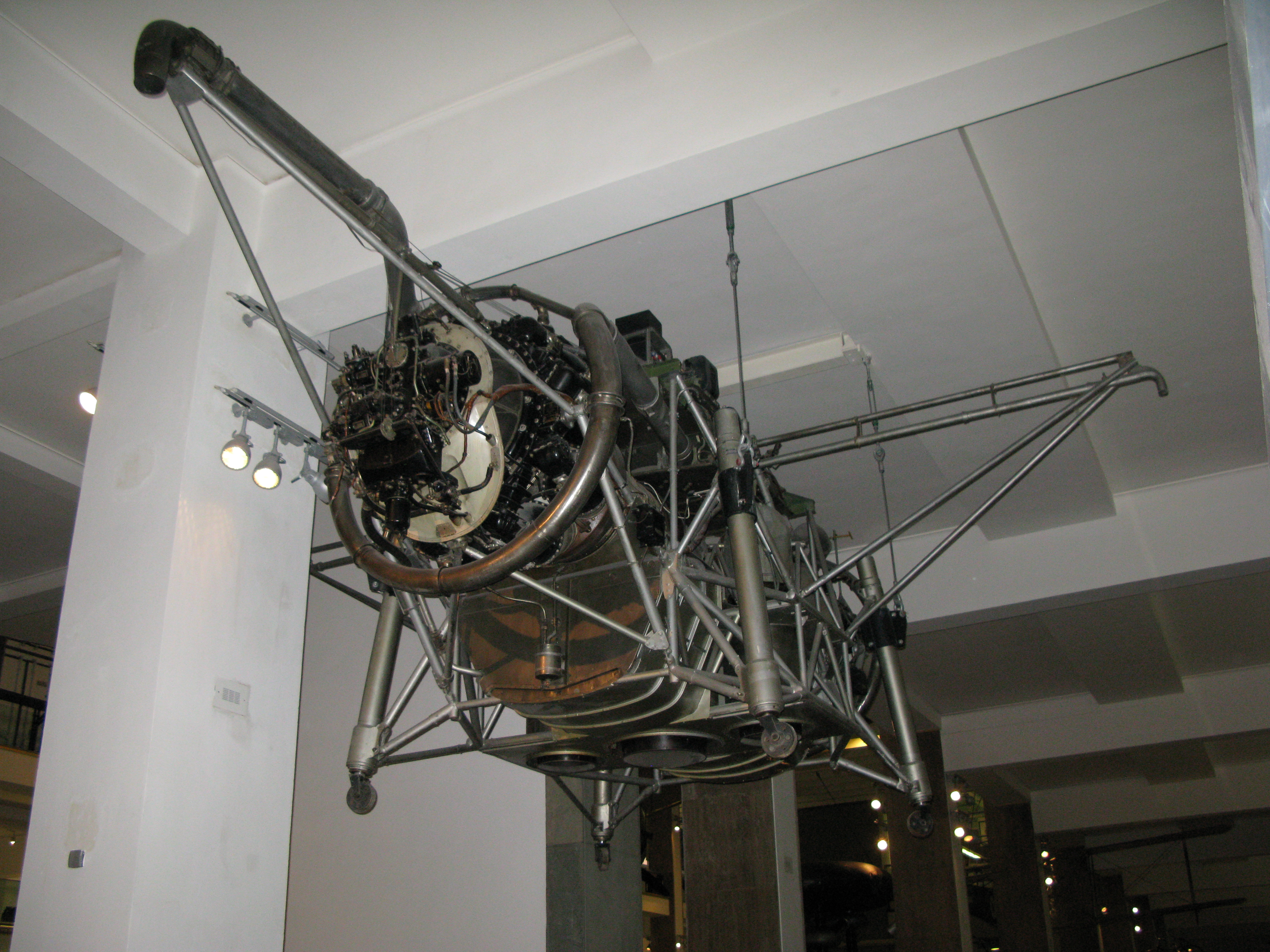 Rolls-Royce Thrust Measuring Rig (Serial XJ314) aka 'Flying Bedstead'